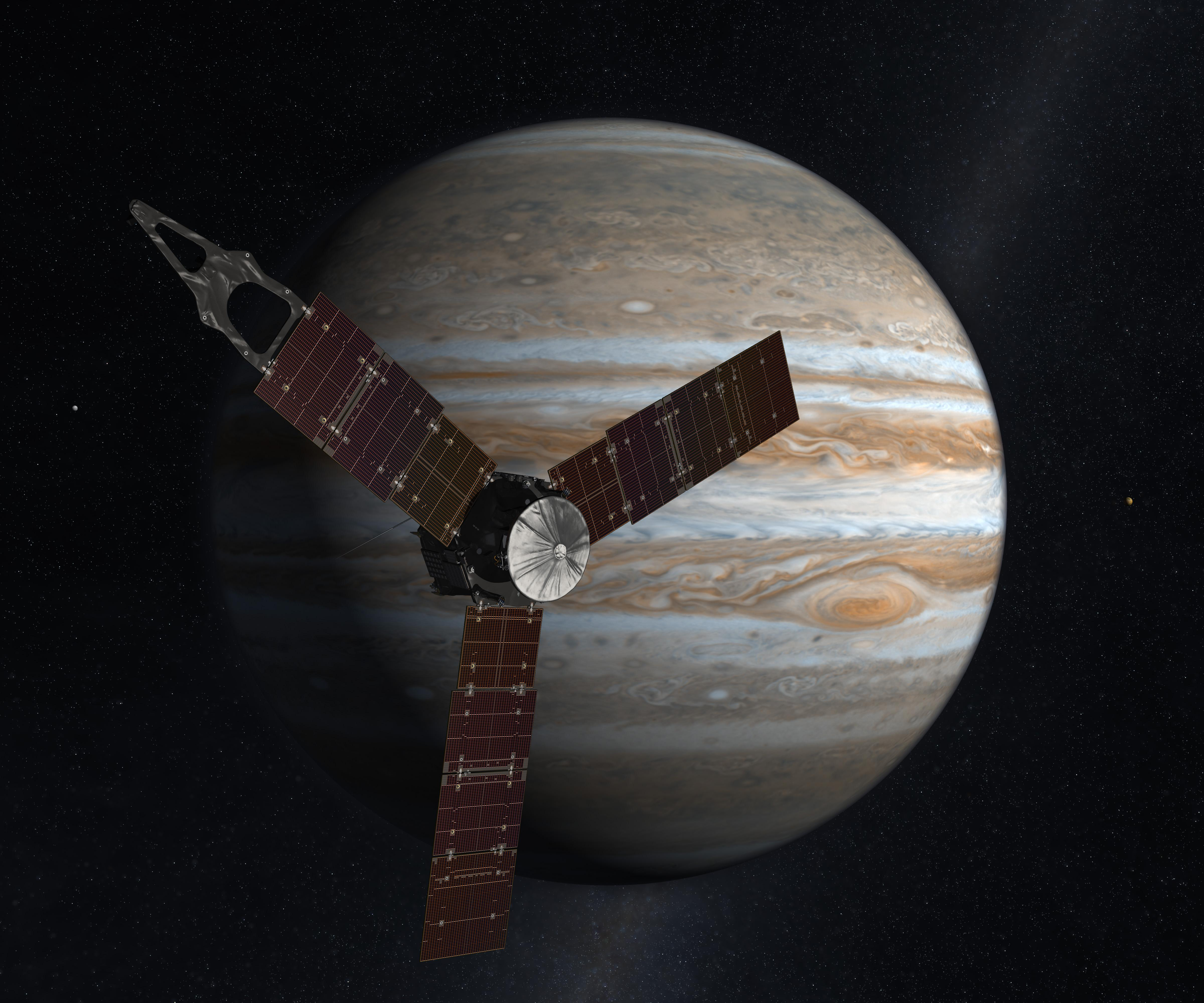 The Juno spaceprobe in front of the planet Jupiter.